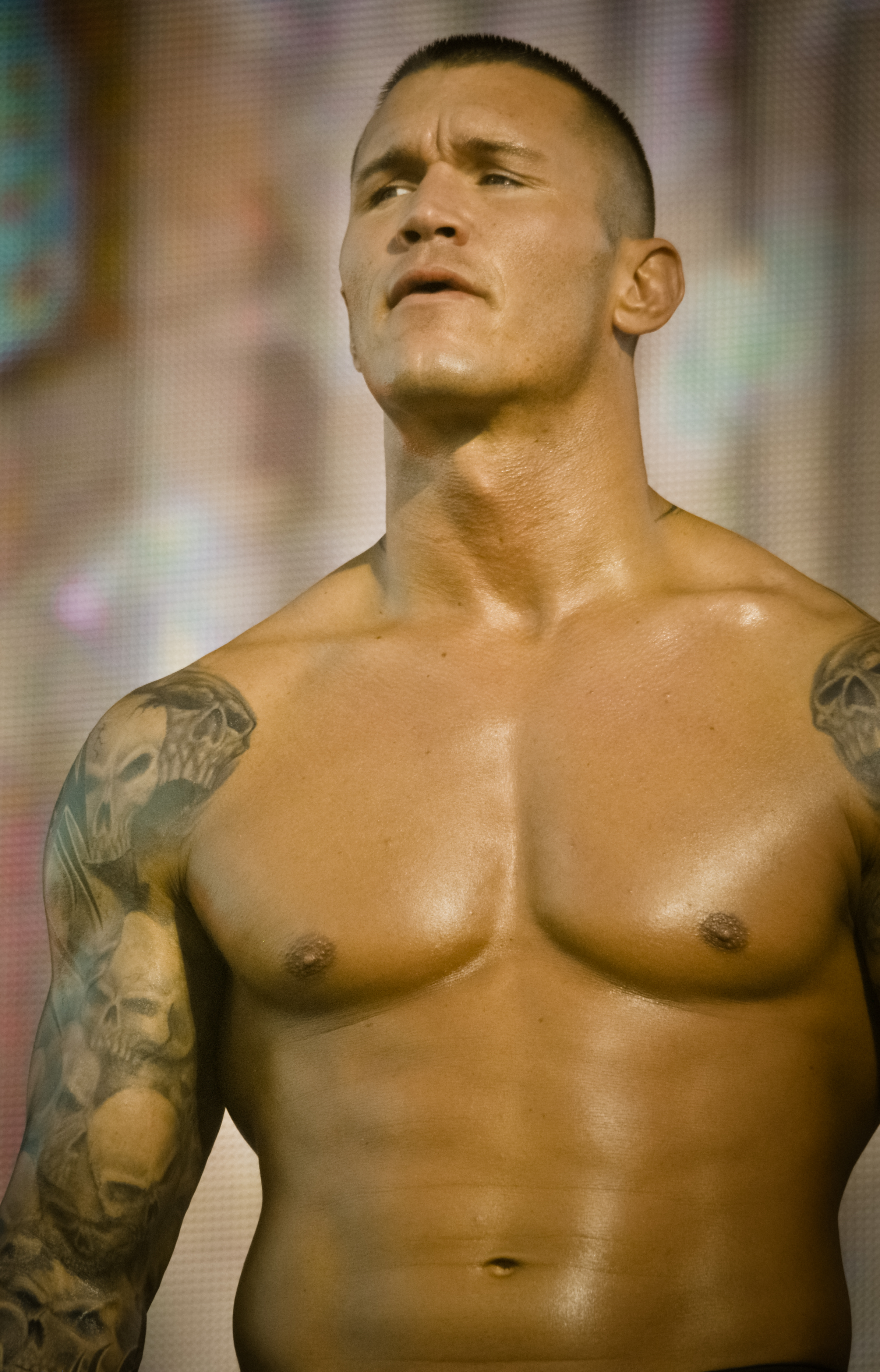 Randy Orton